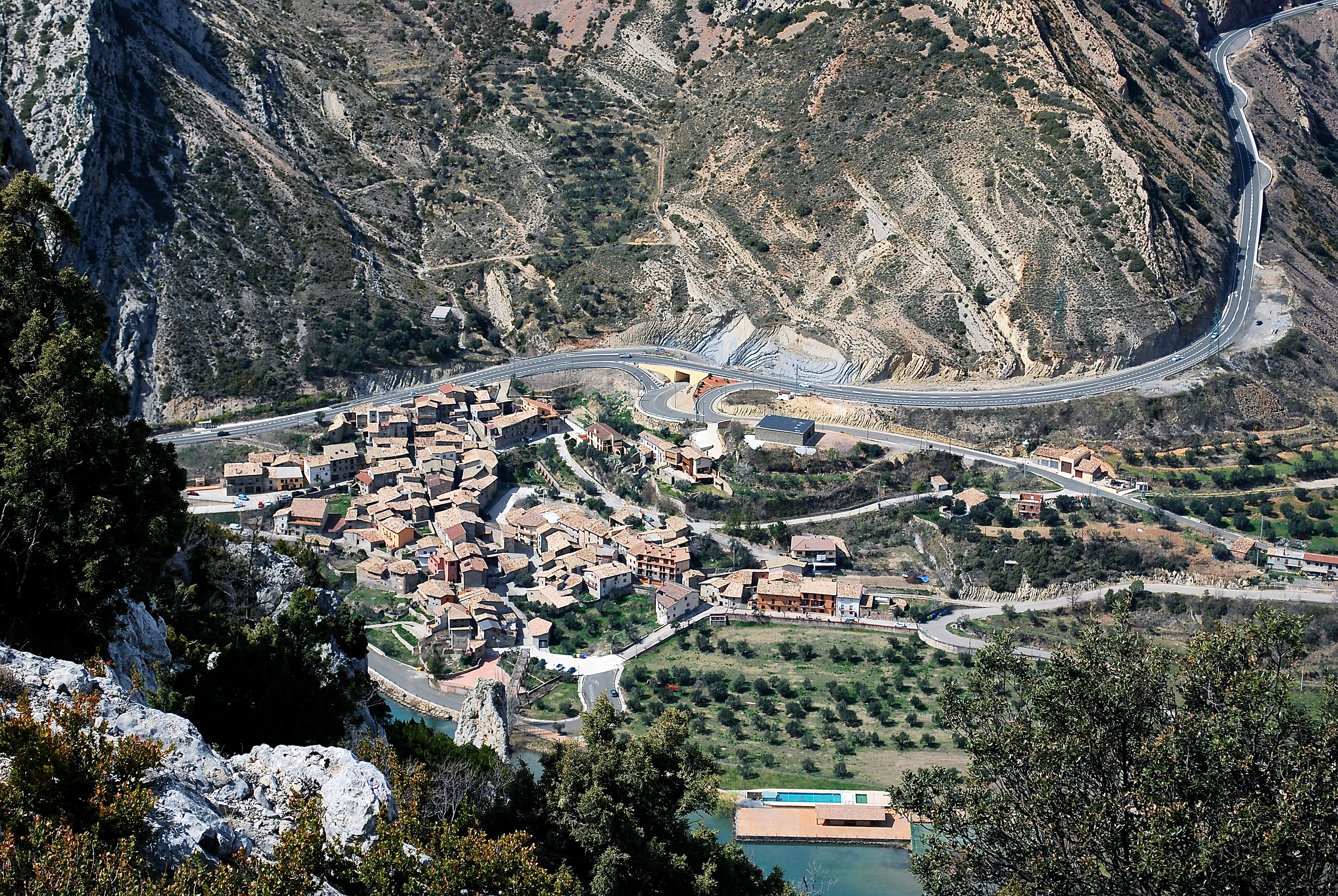 The village Sopeira and Noguera Ribagorçana River cuts ranges internal of central Pre-Pyrenees composed of Mesozoic calcareous rocks and marl interspersed (Catalonia)